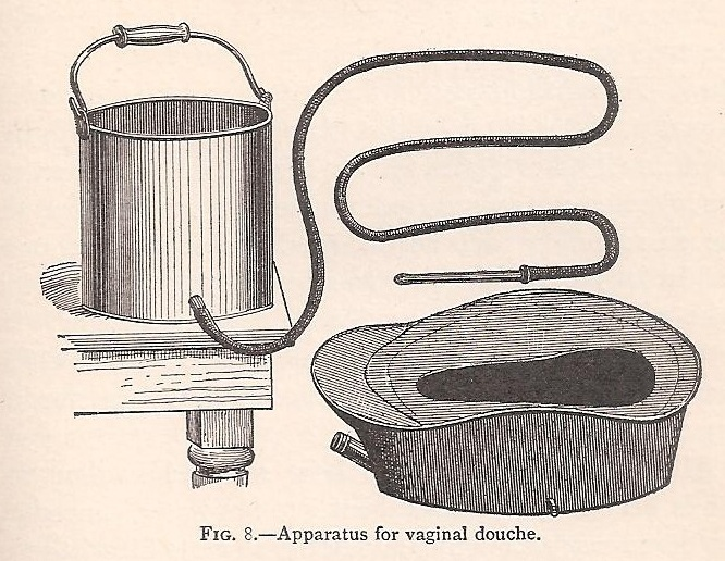 Engraving of vaginal douche apparatus